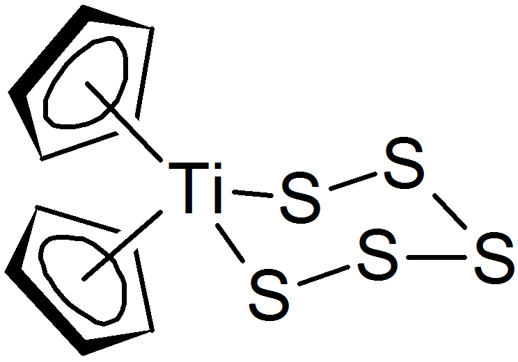 pentasulfur-titanocene complex structure